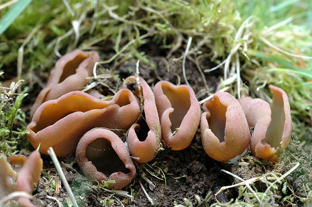 Peziza spec. from Commanster, Belgium. The determination of the species shown in this picture has been verified.